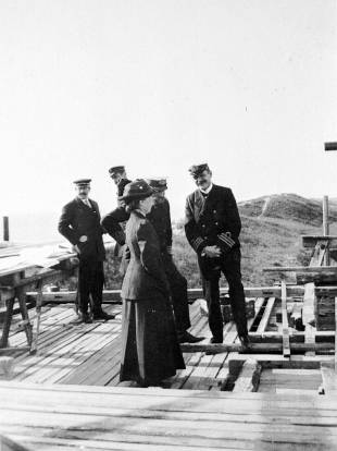 Queen Alexandrine of Denmark inspecting the construction site of Klitgården at Skagen in 1913